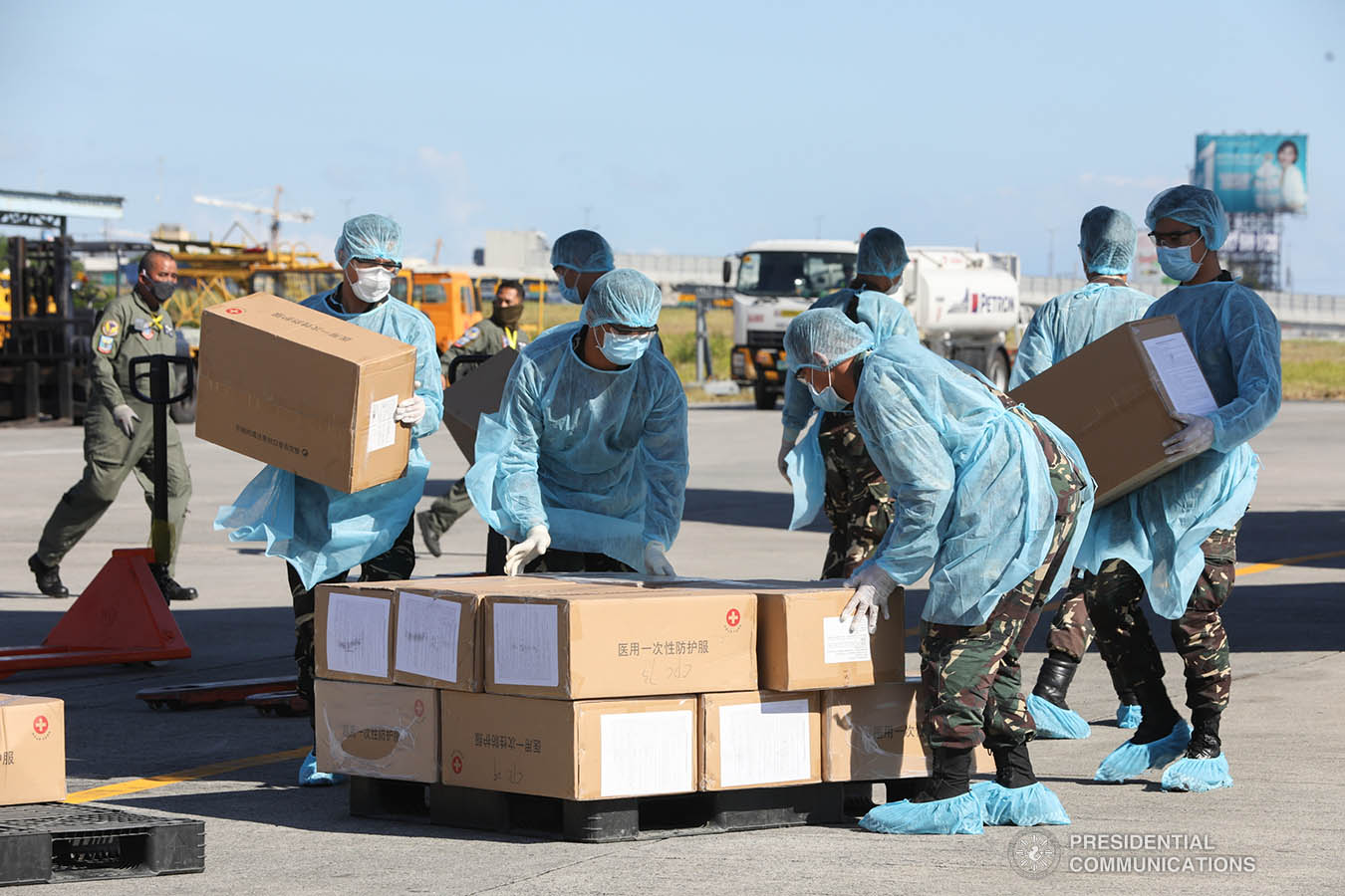 Thousands of aid packages donated by the People's Republic of China are unloaded at the Villamor Air Base in Pasay City on March 21, 2020. The donation includes assorted medical supplies, personal protective equipment, and testing kits for coronavirus. TOTO LOZANO/PRESIDENTIAL PHOTO